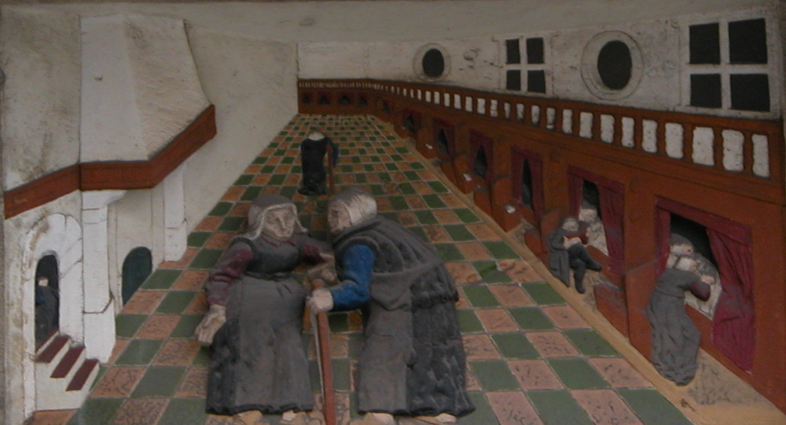 Gable stone, Jansstraat, Haarlem, Netherlands. This gable stone is above a former gateway built in 1624 that belonged to the women's hospital and hofje founded in 1435 called the "St Barbara Gasthuis". Only the door and the gable stone remain after demolition in 1845, which today is protected as a National Heritage site.